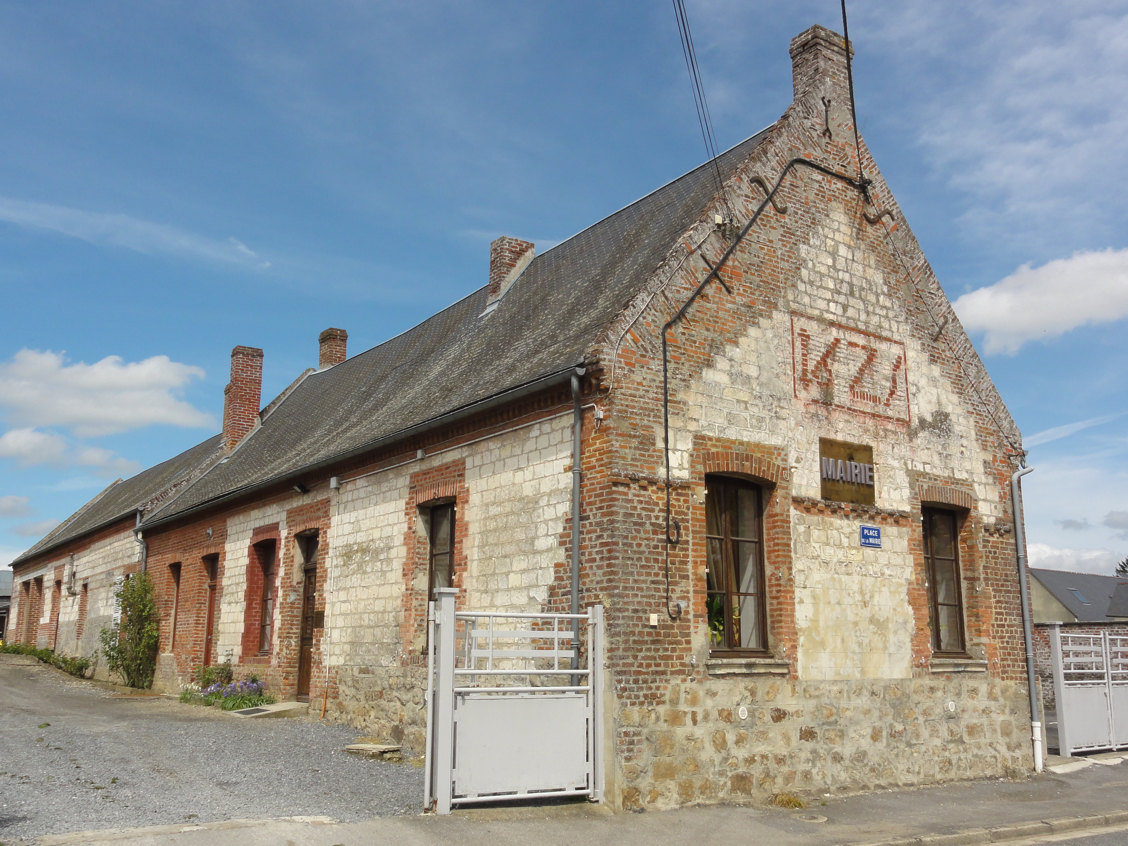 Mesbrecourt-Richecourt (Aisne) mairie